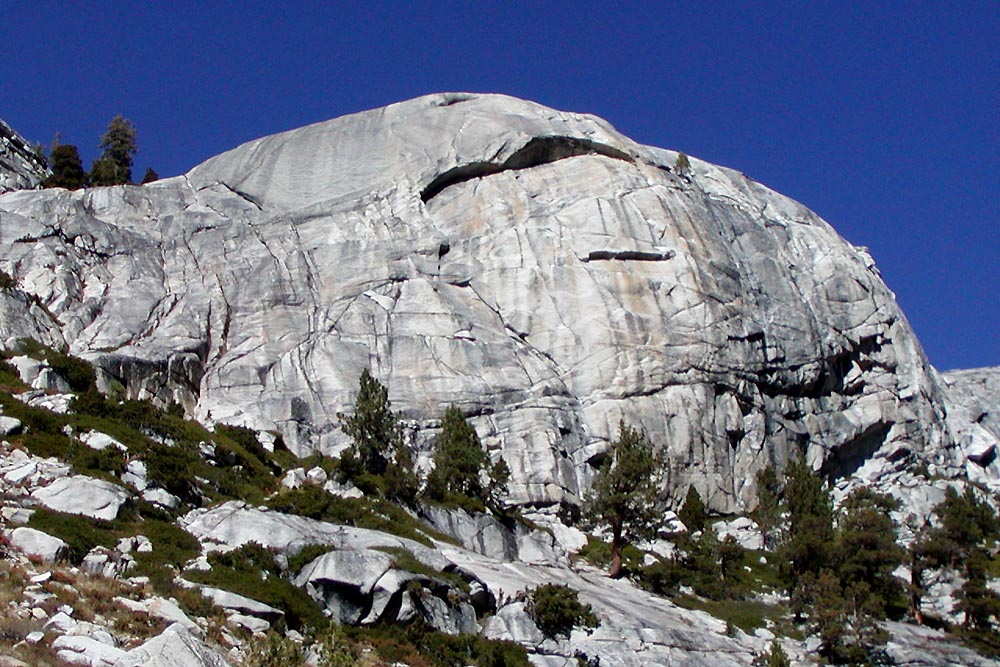 Harlequin Dome above Tenaya Lake